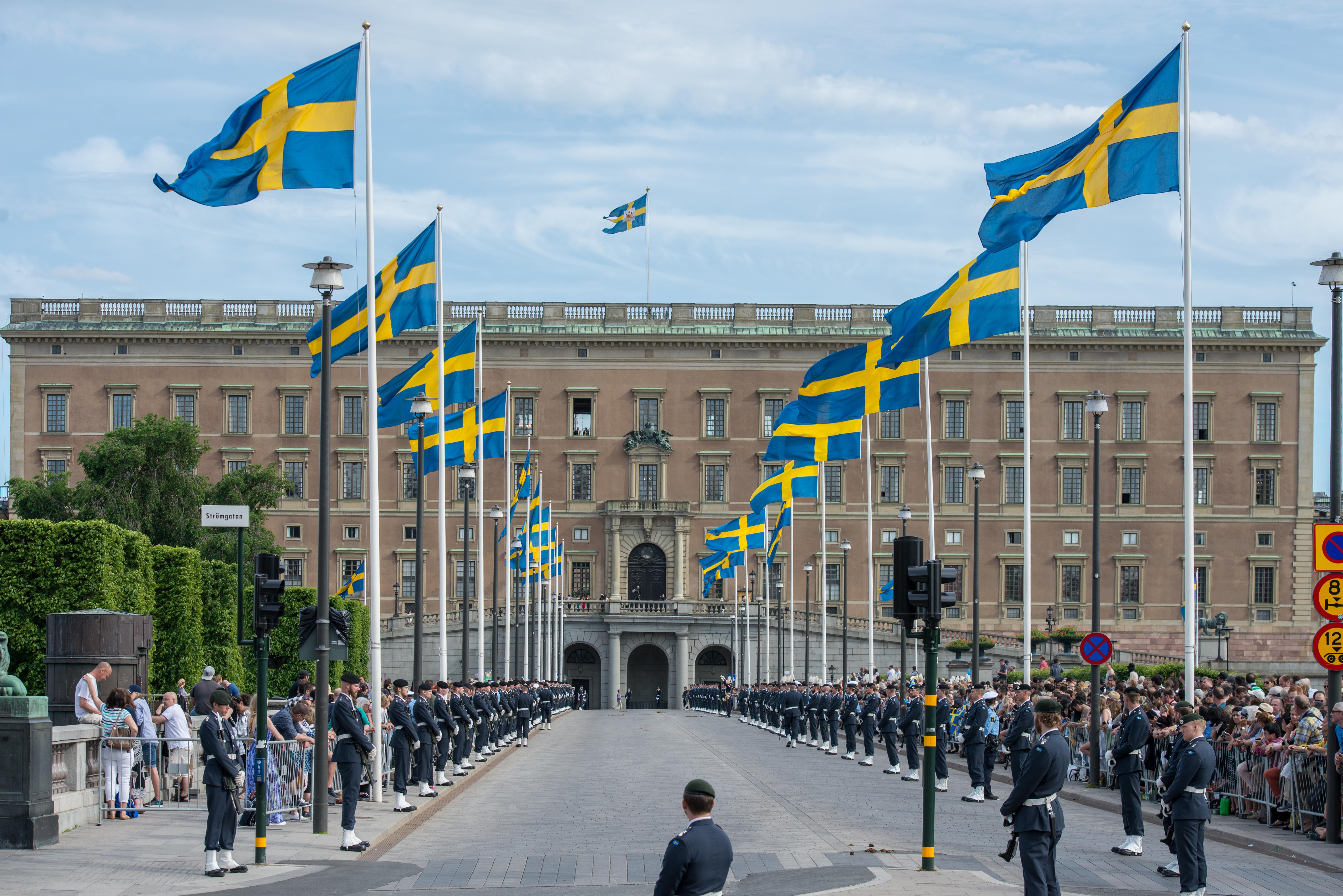 Prince Carl Philip and Princess Sofia after the ceremony in the Royal Chapel and during the procession through central Stockholm. Picture taken at Gustav Adolfs Torg 13 June 2015.